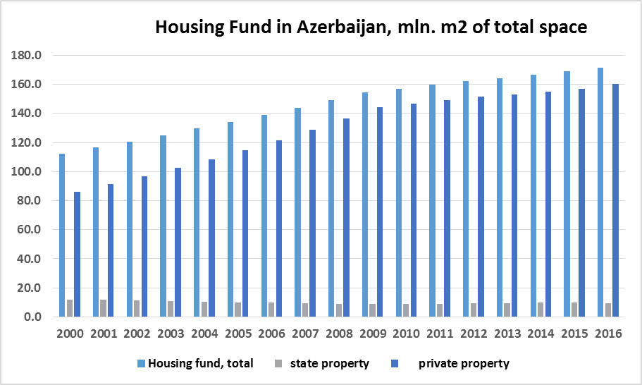 Housing Fund in Azerbaijan, mln. m2 of total space 2000-2016 Housing conditions of the population, Housing Fund